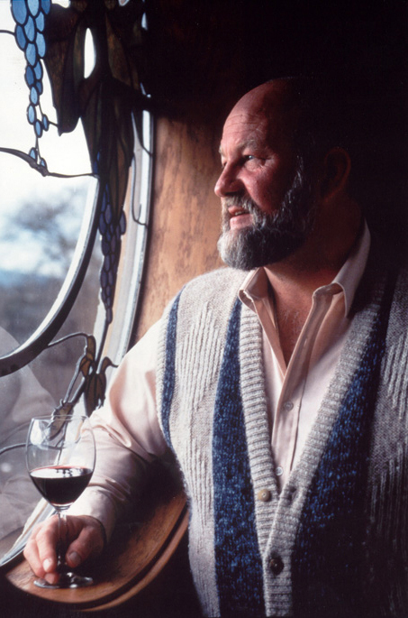 Justin Meyer, co-founder of Silver Oak Cellars.